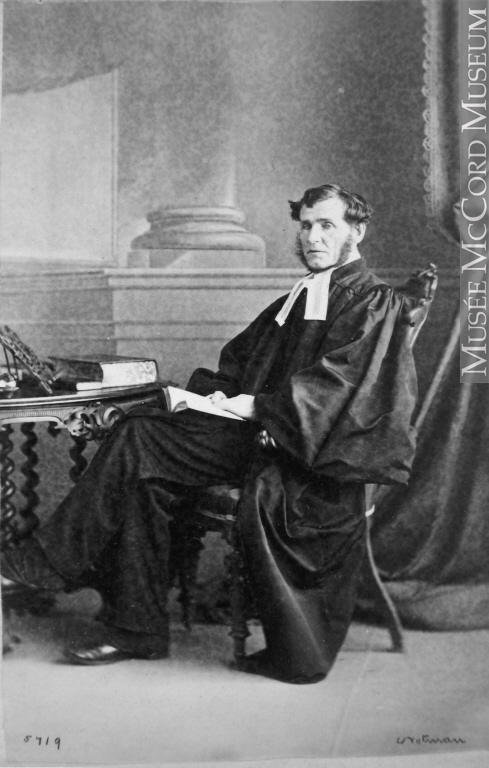 James Caughey (9 April 1810 – 30 January 1891) was a Methodist minister and evangelist who was active in the United States, England and Canada. Photographed in Montreal, Quebec.